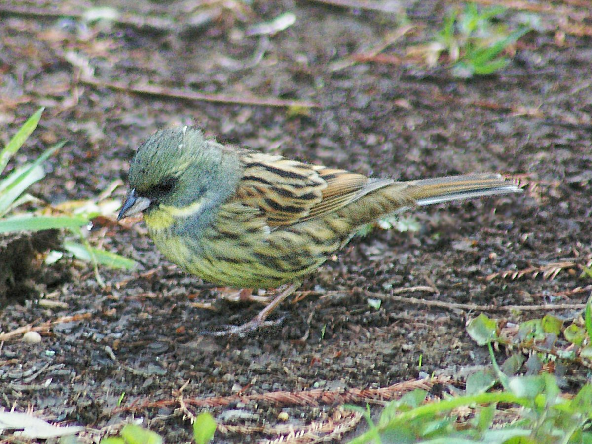 black-faced bunting male. Japan, Tsukuba (wild), 2007